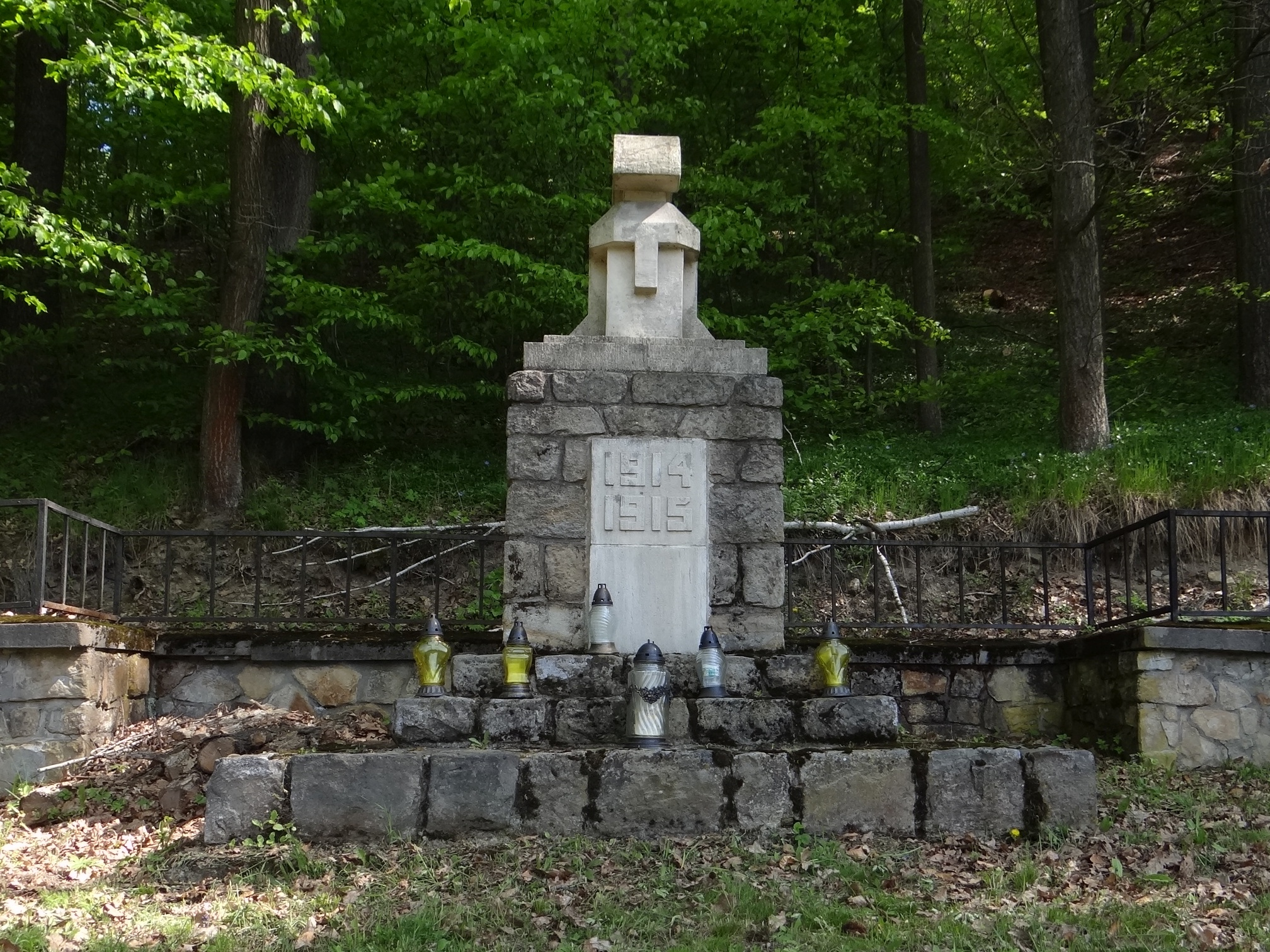 World War I Cemetery nr 150 in Chojnik